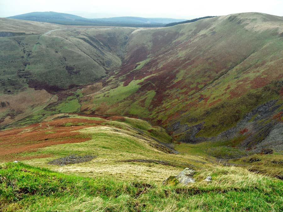 The Annandale Way is a 53-mile (85 km) hiking trail in Scotland. View down into Devil's Beef Tub (lower right) from Great Hill with Annanhead hill above it and the A701 road visible top left. Scothill Own image 11th November 2011